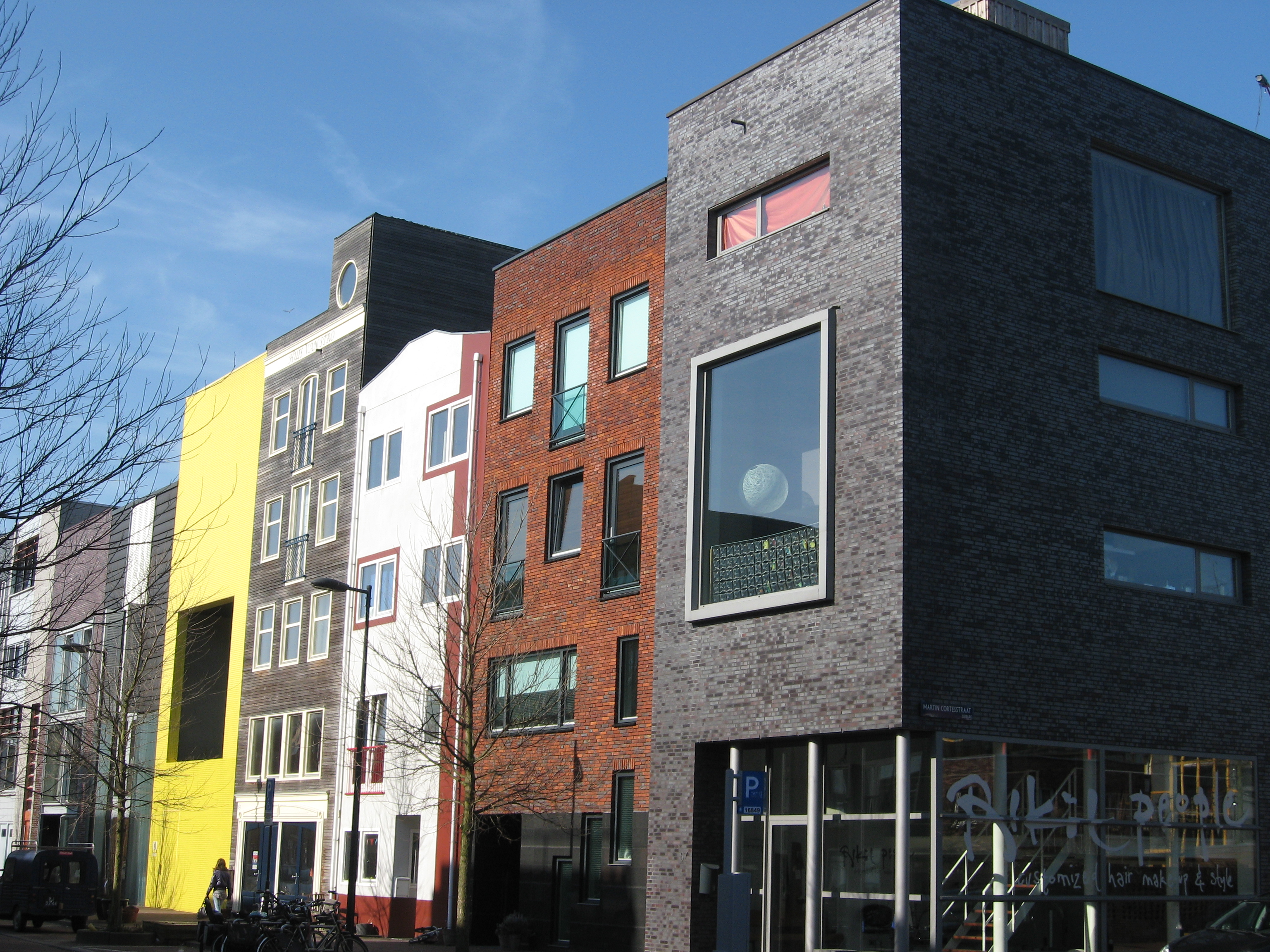 Steigereiland Homes